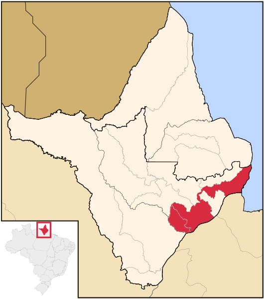 Map of Metropolitan region of Macapá.